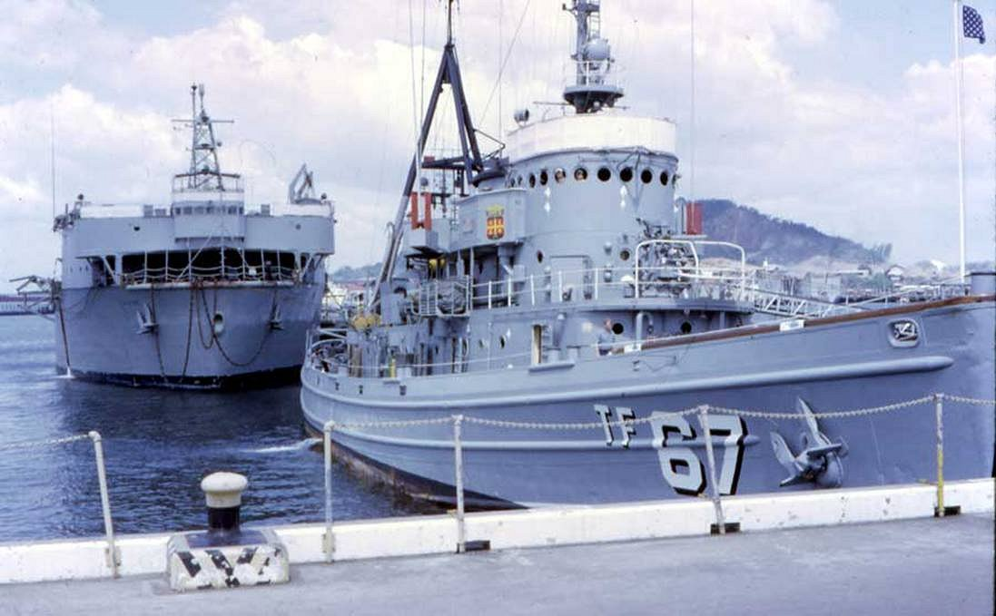 United States Navy fleet ocean tug USS Apache (ATF-67) moored ahead of auxiliary repair dock USS White Sands (ARD-20) at the Panama Canal Zone